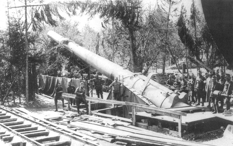 The 35cm cannons of Ersatz Monarch-class battleships in the Italian front in 1916